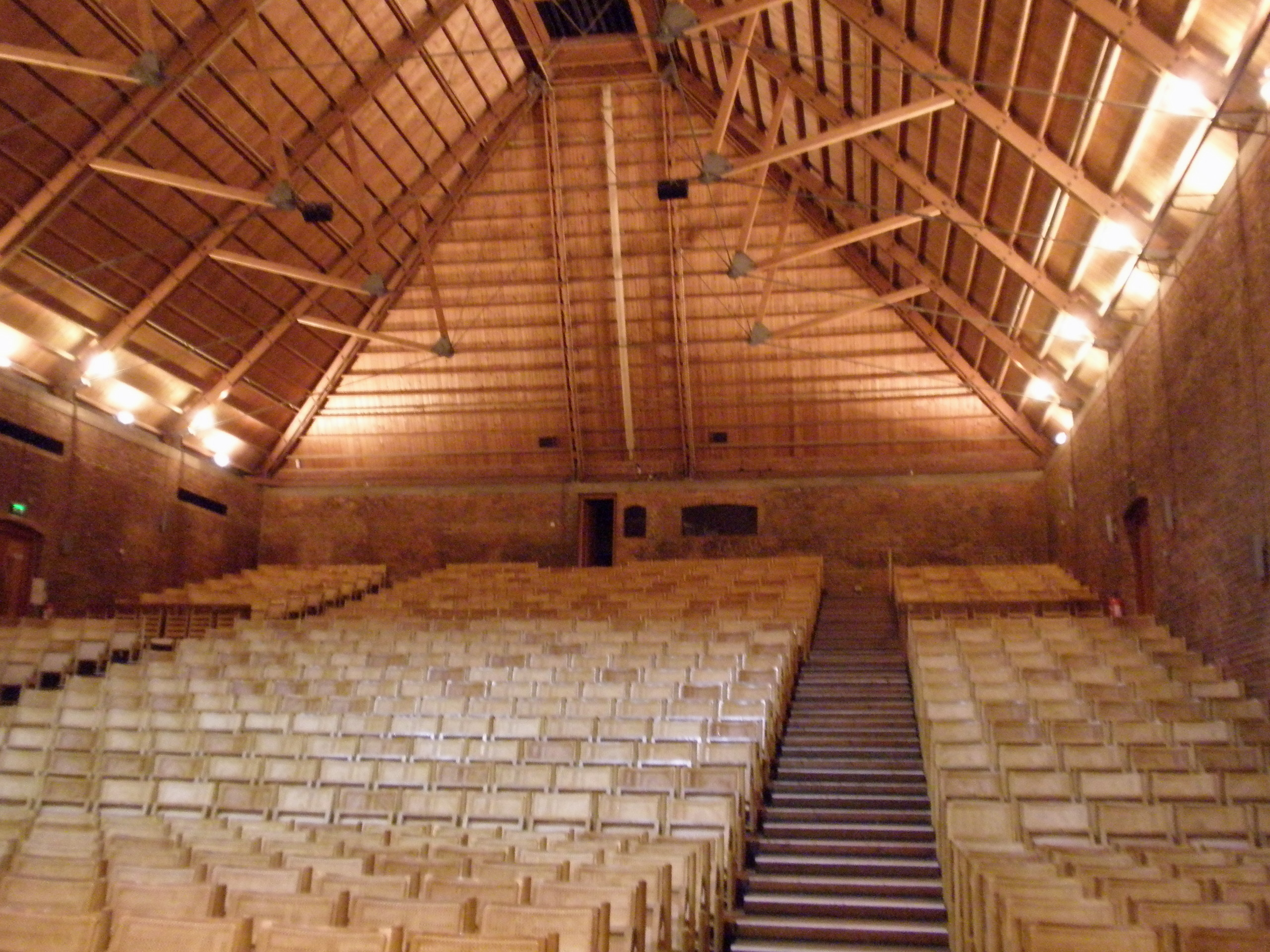 Snape Maltings at Snape, Suffolk, is best known for its concert hall, which is one of the main sites of the annual Aldeburgh Festival. The Maltings is a set of buildings, mostly dating from the 19th century, built on the banks of the River Ore near Snape. Its original purpose was the malting of barley for the brewing of beer; local barley, once malted, was sent from here to London and exported to mainland Europe. The Maltings closed in 1960. The buildings have since been partially restored, rebuilt and converted into shops, galleries, and the concert hall, where part of the world-famous Aldeburgh music festival is held. The composer Benjamin Britten was inspired by the vast skies and moody seas of the Suffolk coast, and in 1948, along with singer Peter Pears and writer Eric Crozier, he founded the Aldeburgh Festival.